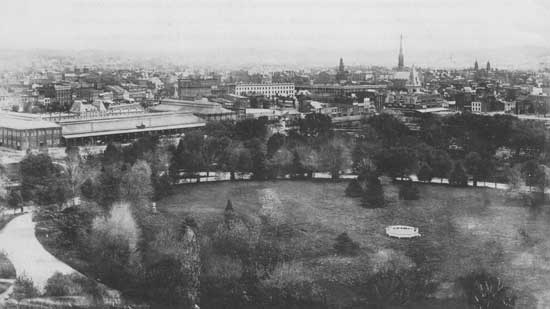 Looking northeast across the National Mall in Washington, D.C., in the United States circa 1900. The Mall exhibits the winding pathways and random planting of trees created by the 1851 landscape design of Andrew Jackson Downing. The area depicted is approximately between 9th and 6th Streets NW. Center Market is the low building to the left. The Baltimore and Potomac Passenger Railroad Station, marked by the Victorian-style tower, is in the middle-right. The United States Capitol building is not shown, but would be further to the right.